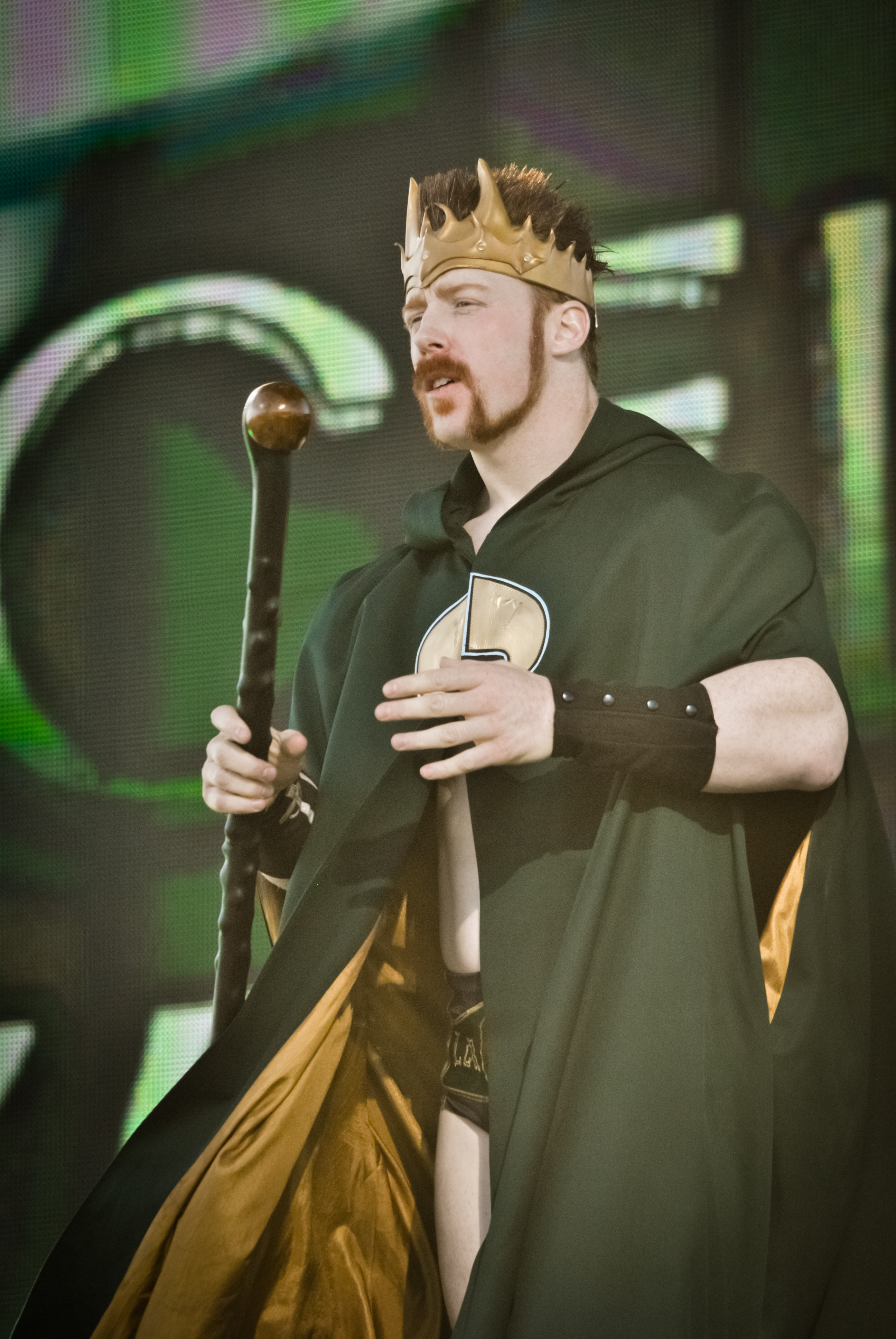 'King' Sheamus at WWE's Tribute to the Troops show in Fort Hood, Texas, on December 11, 2010.